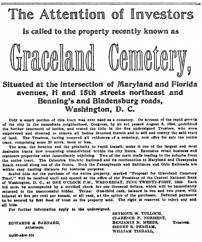 Advertisement in The Evening Star newspaper in Washington, D.C., in the United States from June 14, 1899, advertising the sale of Graceland Cemetery.